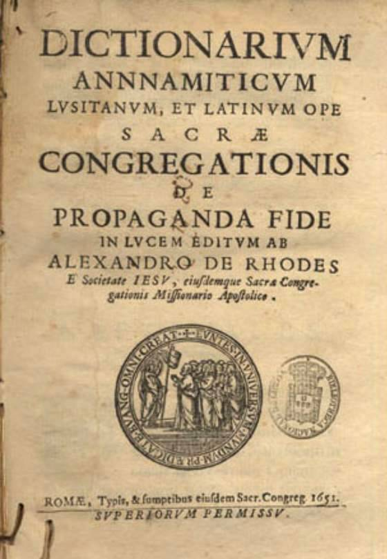 Cover page of Dictionarium_Annamiticum_Lusitanum_et_Latinum